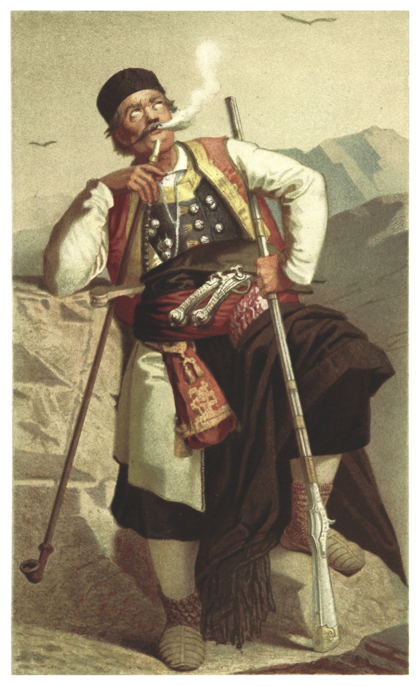 Image extracted from page 11 of Die Serben an der Adria. Ihre Typen und Trachten. (1870) by Louis Salvator, Erzherzog von Österreich. Original held and digitised by the British Library. Copied from Flickr. Note: The colours, contrast and appearance of these illustrations are unlikely to be true to life. They are derived from scanned images that have been enhanced for machine interpretation and have been altered from their originals.